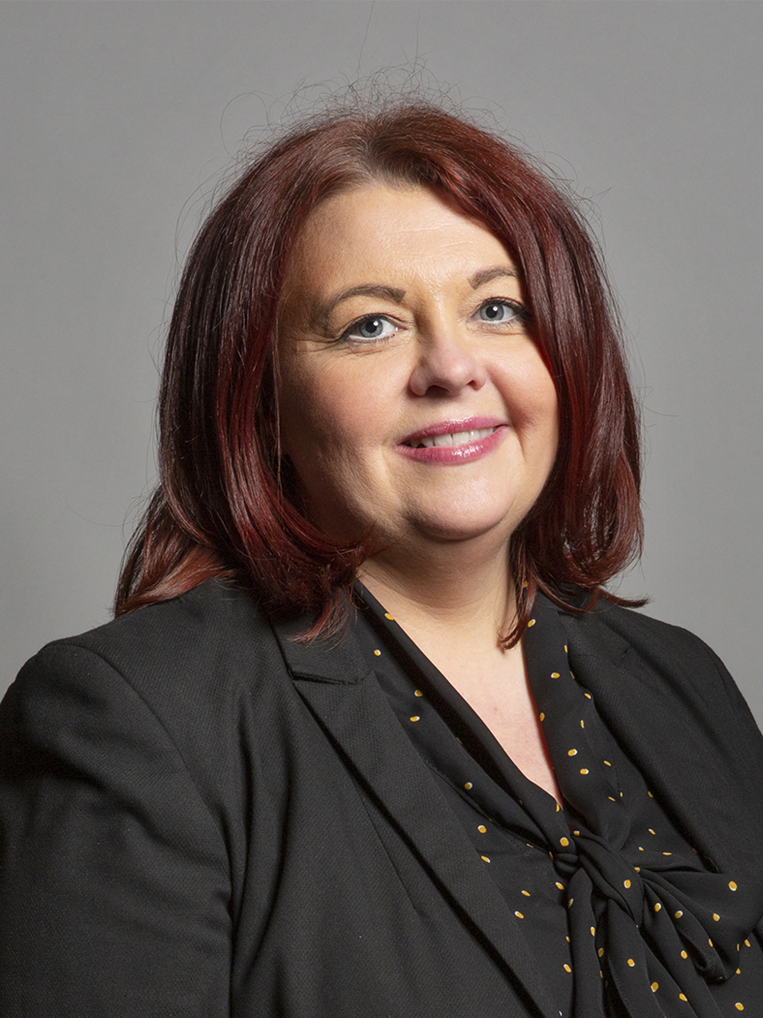 Official portrait of Paula Barker MP 3×4 portrait of Paula Barker